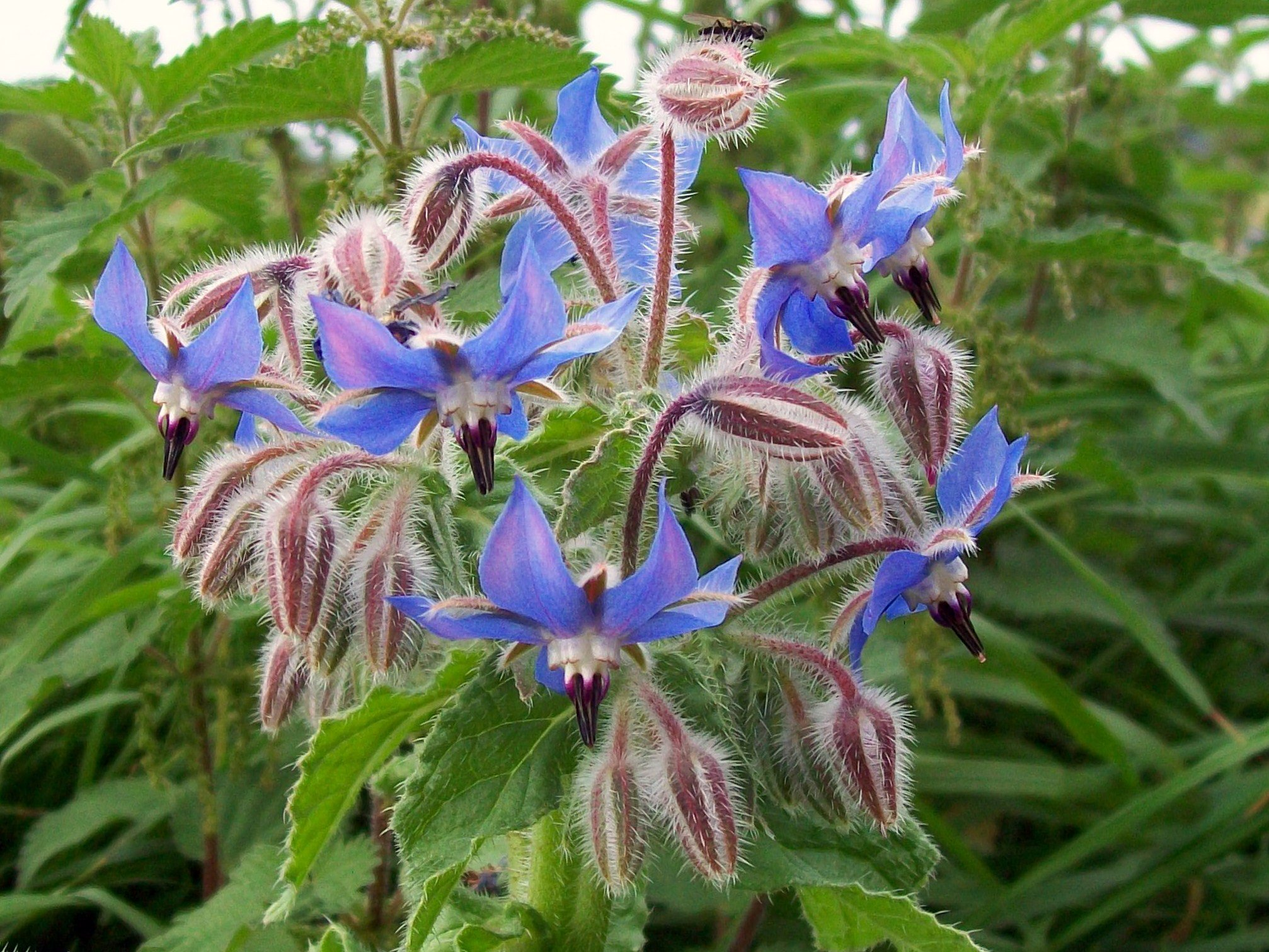 Borage (Borago officinalis), found (along with many others) at the edge of a ploughed field on the bridleway in Stevenage that passes Claypithills Spring and heads towards Newberry Grove and Dane End Farm, Hertfordshire, 18 September 2010